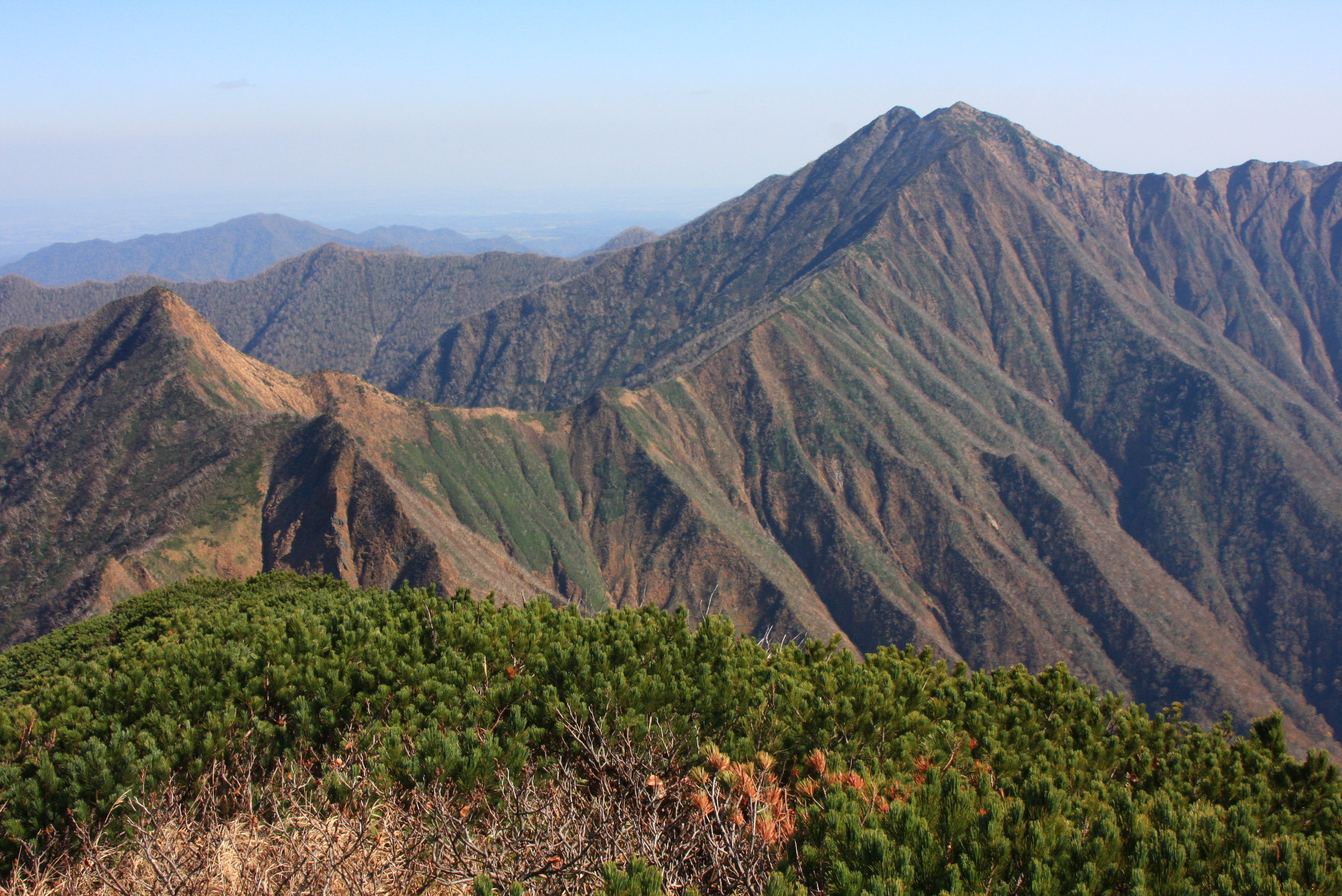 Mount Soematsu (Soematsu-dake) as seen from Mount Kamui